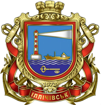 Coat of arms of Illichivsk